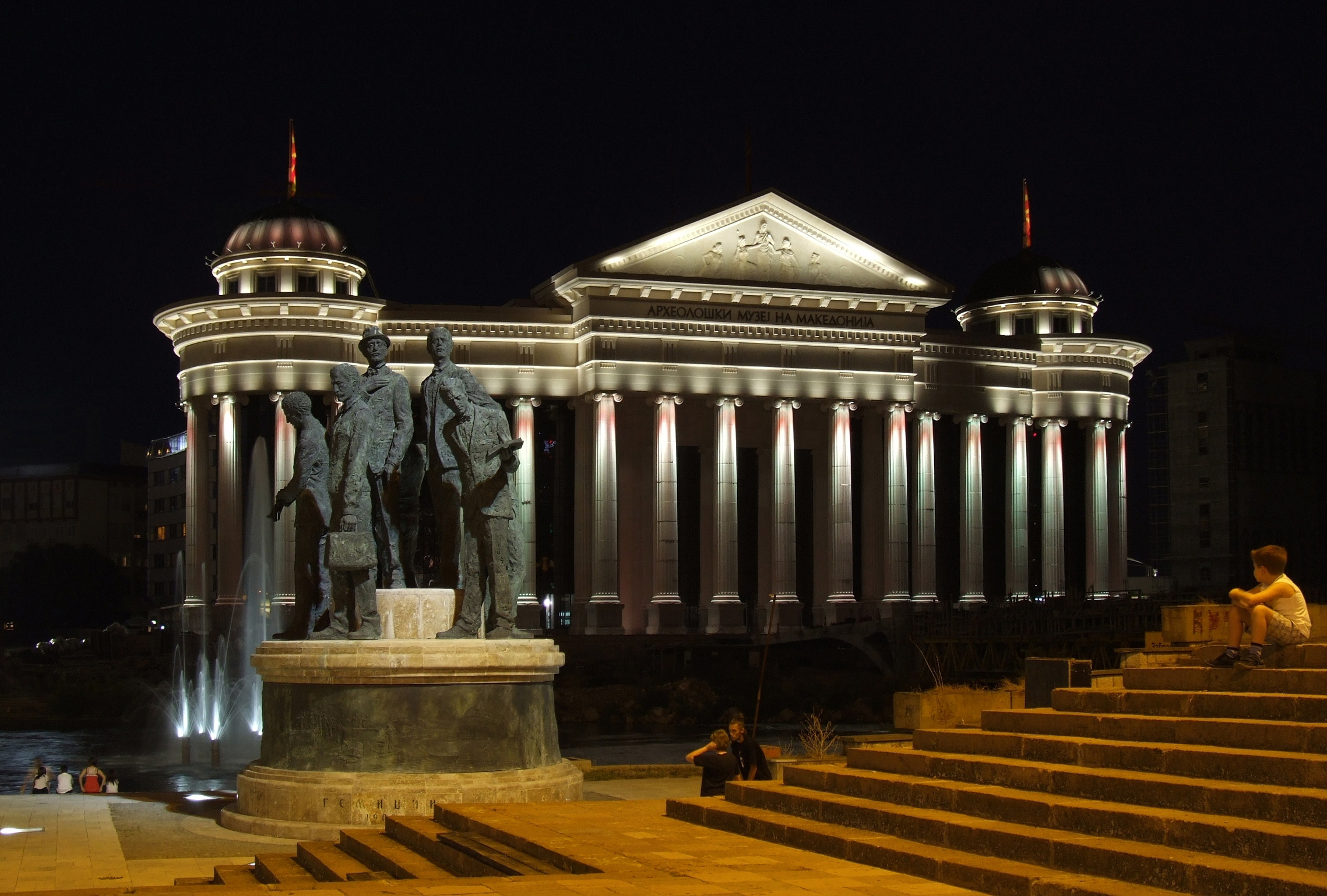 Archeological Museum of Macedonia in Skopje by night